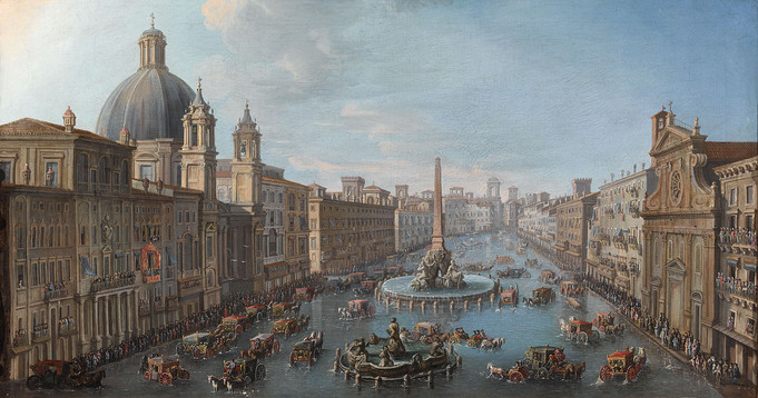 Piazza Navona Allagata by Antonio Joli. Oil on Canvas. M.S. Rau Antiques